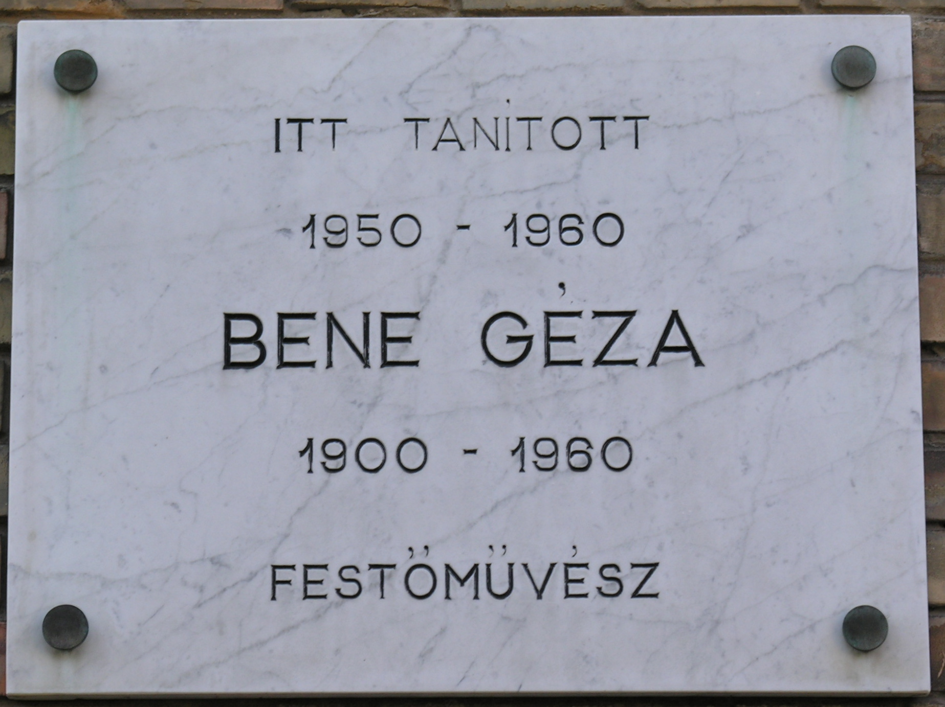 Commemorative plaque of Géza Bene, Budapest District XIV, Telepes Street No 32 (school)